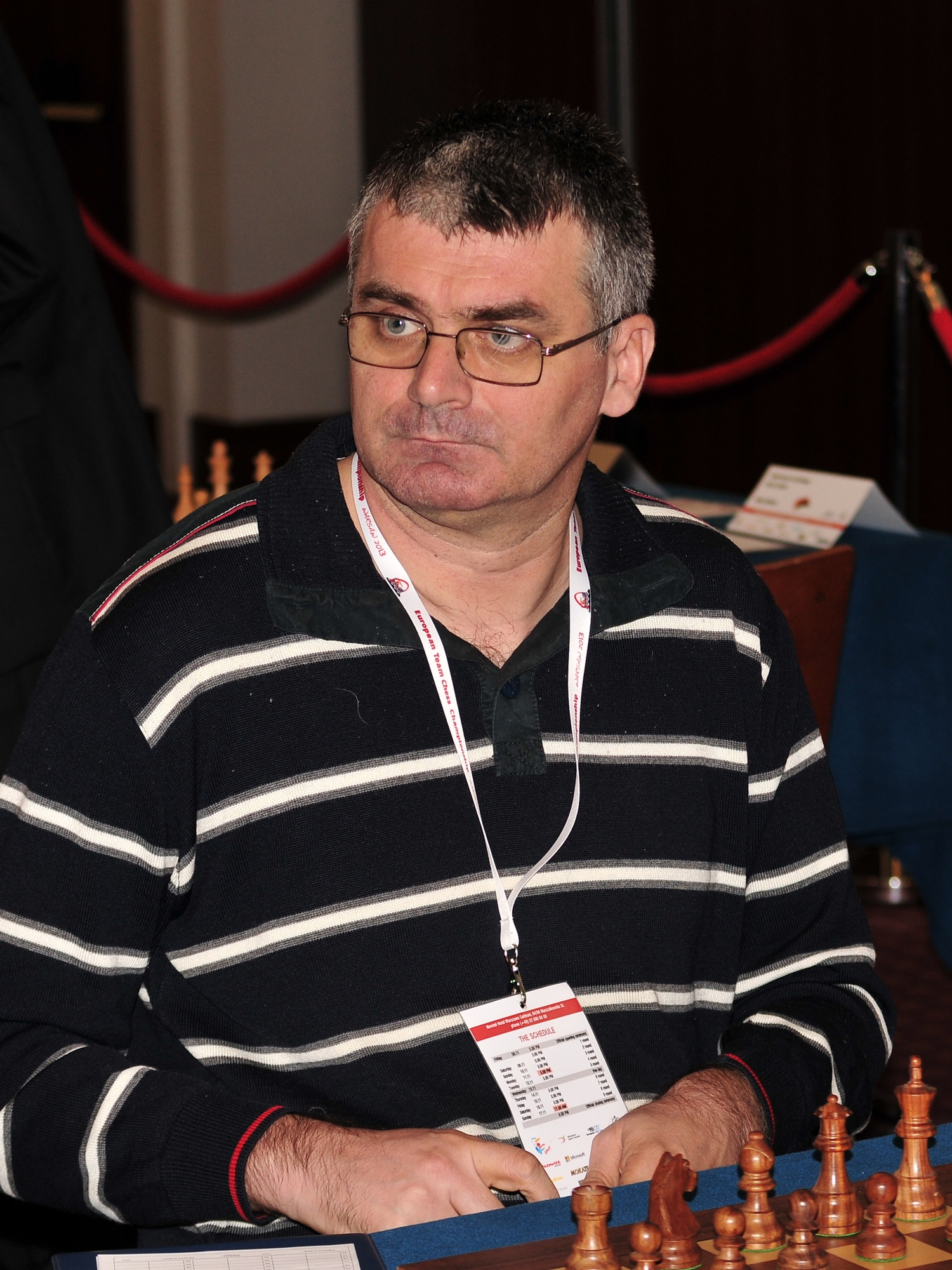 GM Mladen Palac, European Chess Team Championship Warsaw 2013